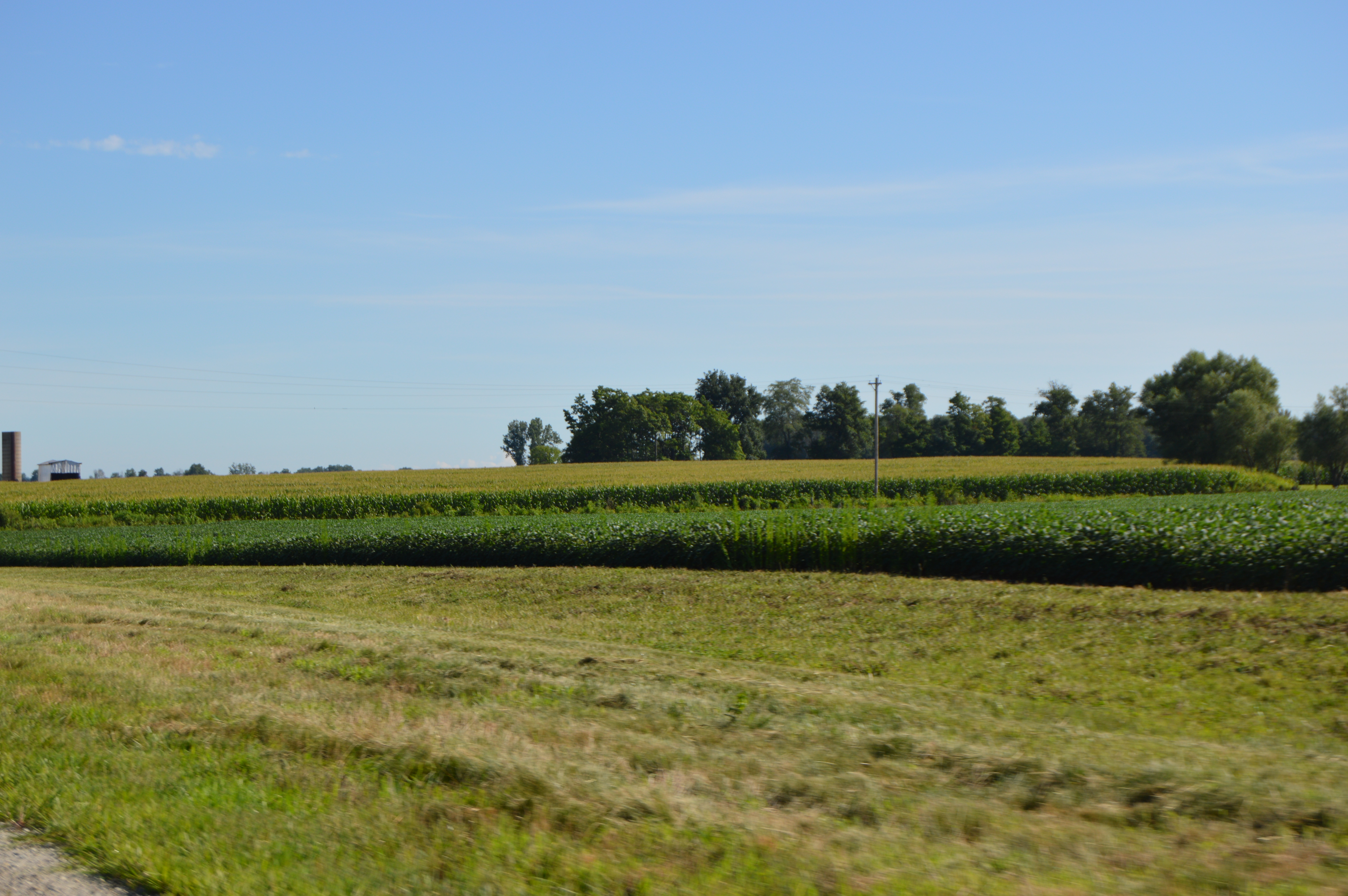 Corn and soybean fields on both sides of Lefever Road, seen looking east from State Route 47, in Salem Township, Shelby County, Ohio, United States.